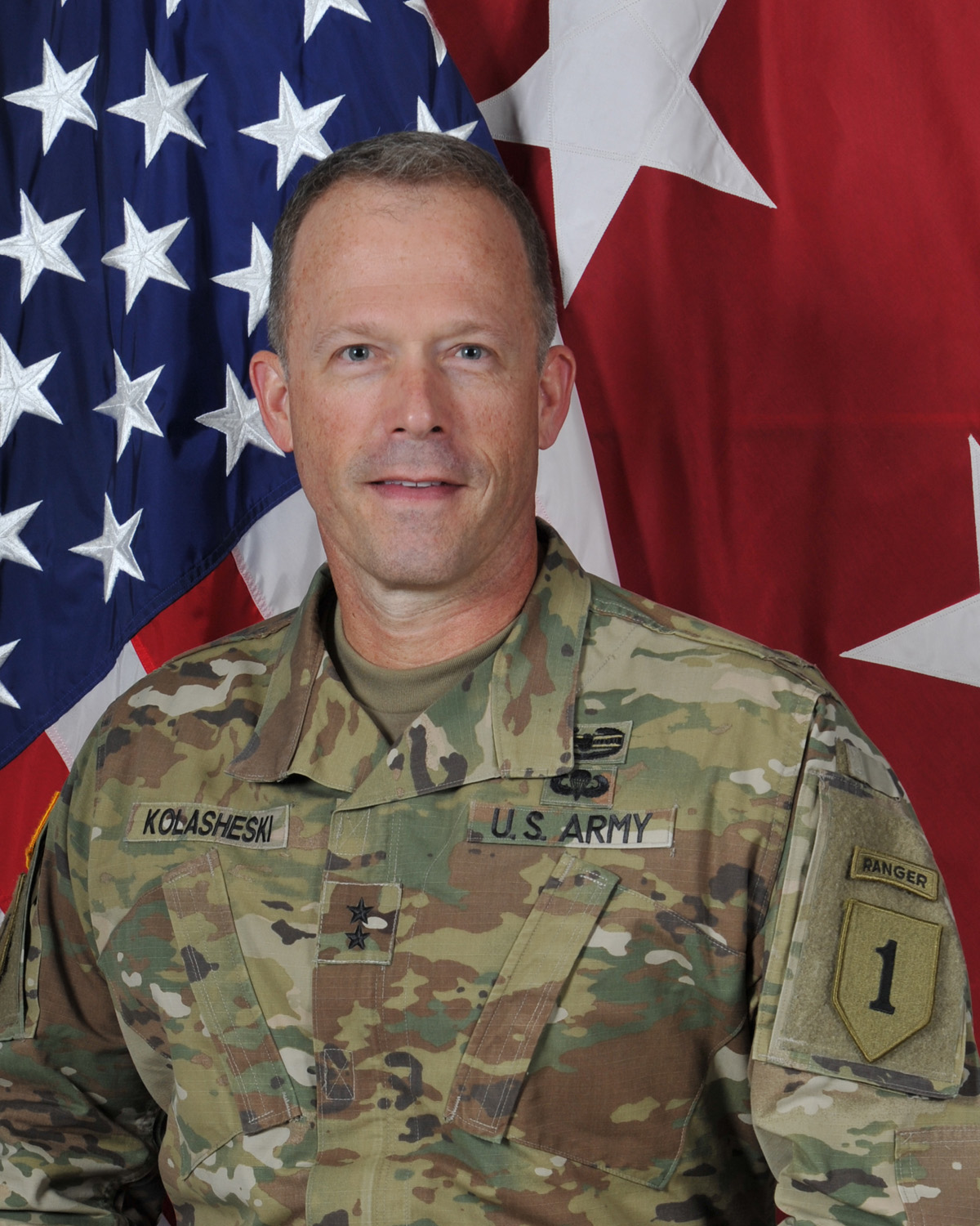 Maj. Gen. John S. Kolasheski